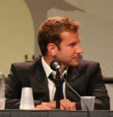 Bradley Cooper at Comic-Con Festival promoting The Midnight Meat Train